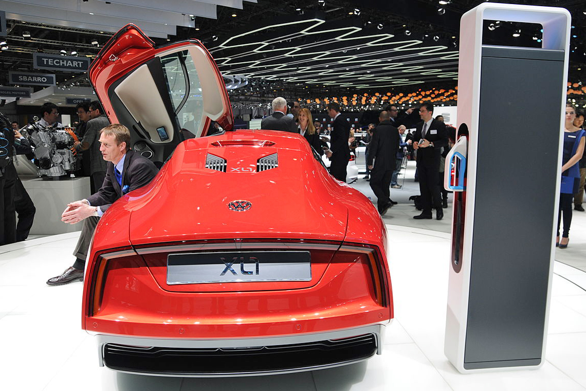 Production version of the Volkswagen XL1 exhibited at the Geneva Motor Show 2013 (photos taken on the first press day)